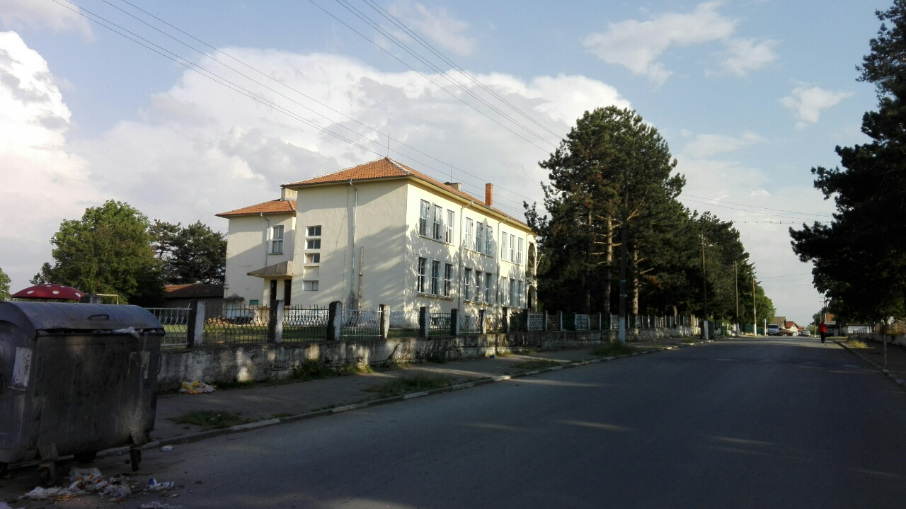 Cyril and Methodius School at Seslav, Razgrad Province